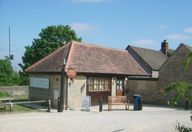 Post Office, 32 School Road, Finstock, Oxfordshire